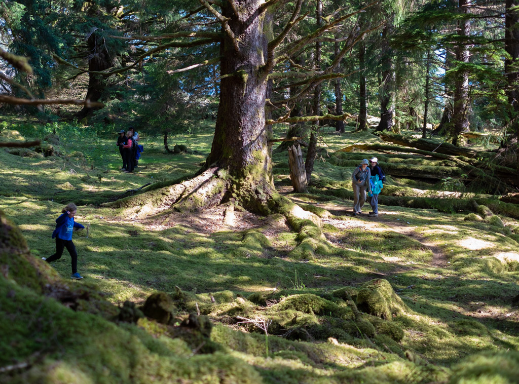 The village site at Tanu, Haida Gwai, unlike others, has the site of a mass grave that was used after the vast majority of inhabitants died of smallpox.